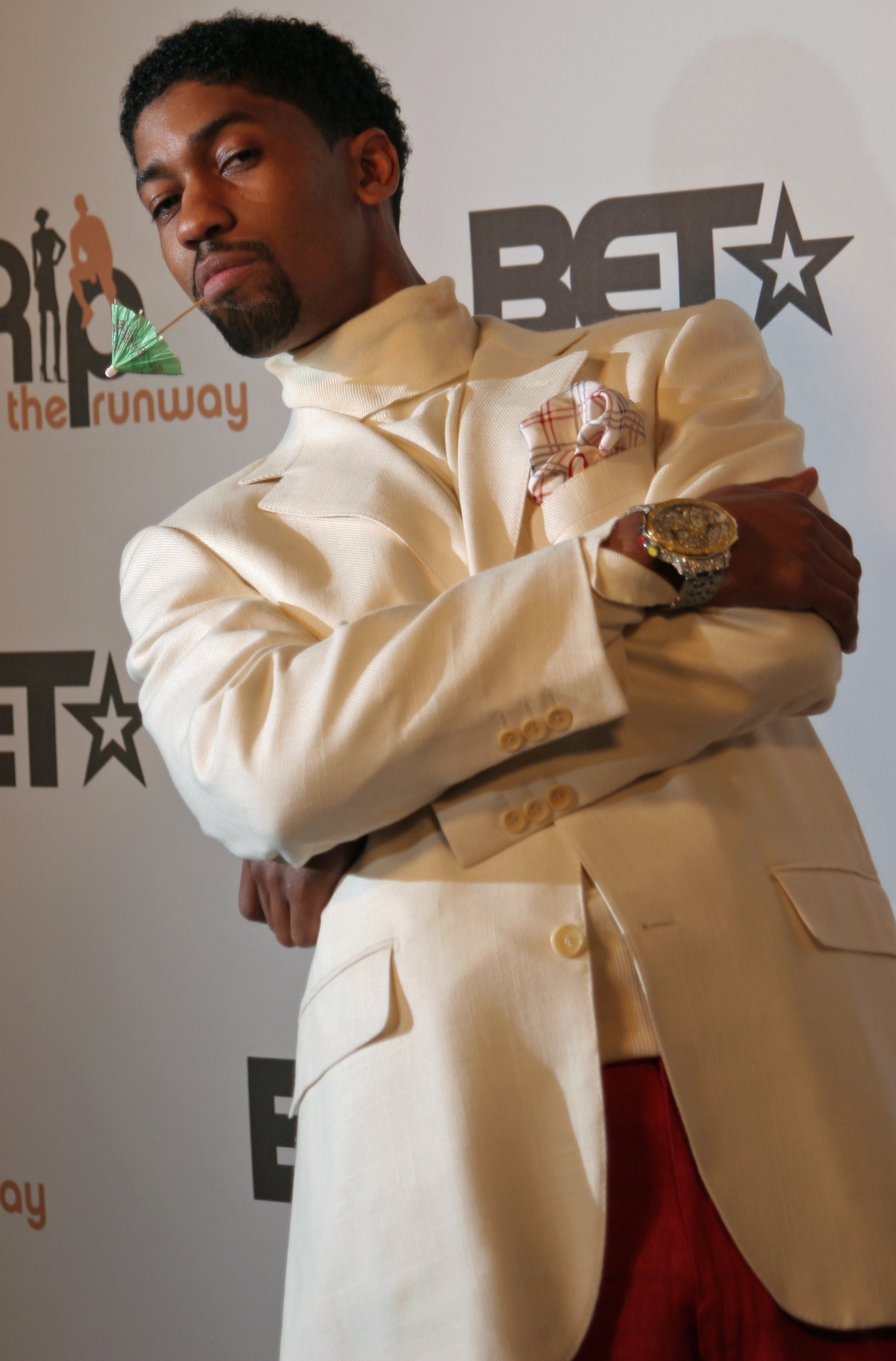 Fonzworth Bentley in March 2005.